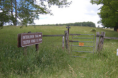 Trail through federal pastureland in Finger Lakes National Forest.